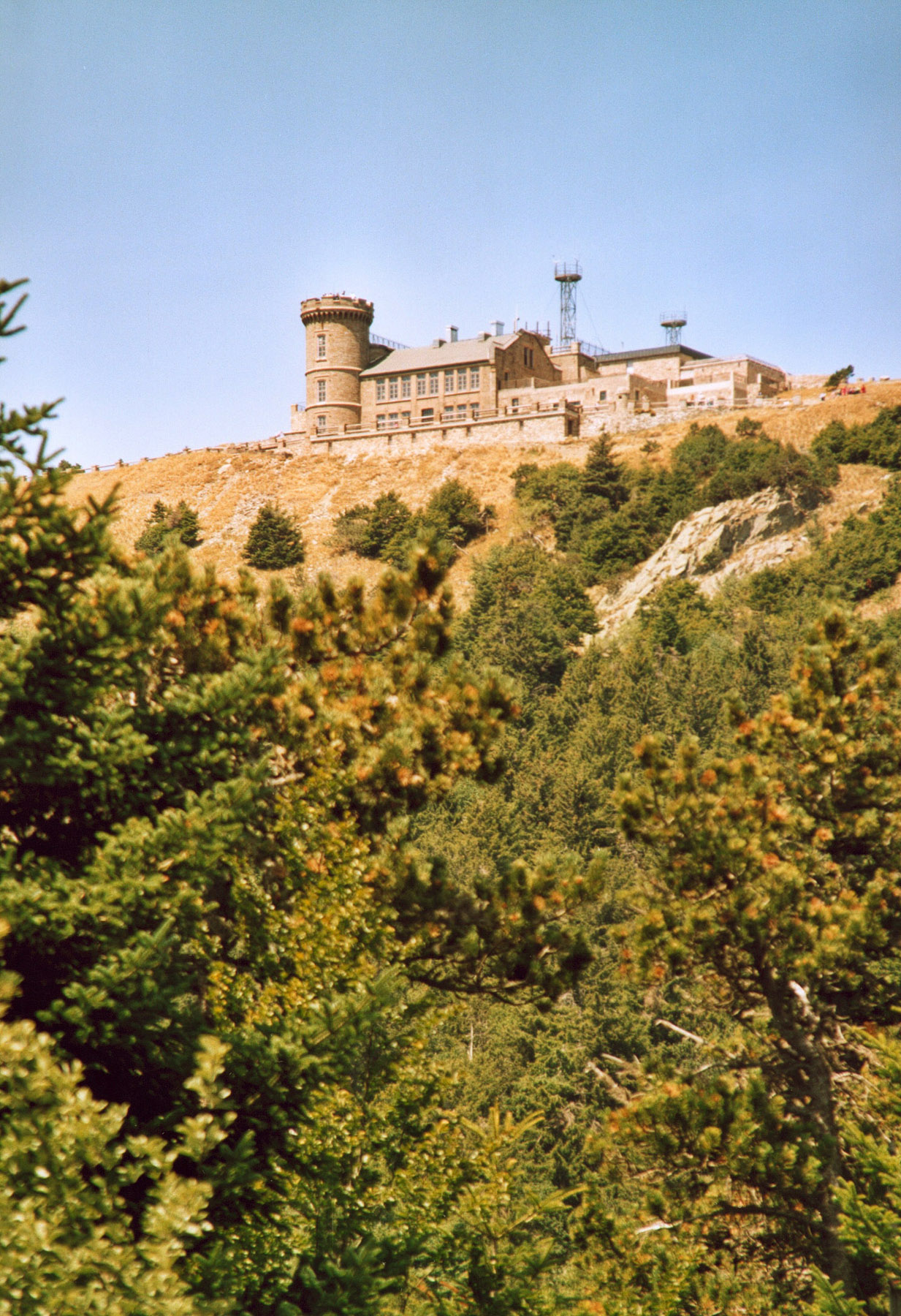 General view of the Arboretum de l'Hort de Dieu, on the southern flank of Mont Aigoual, Gard, France.